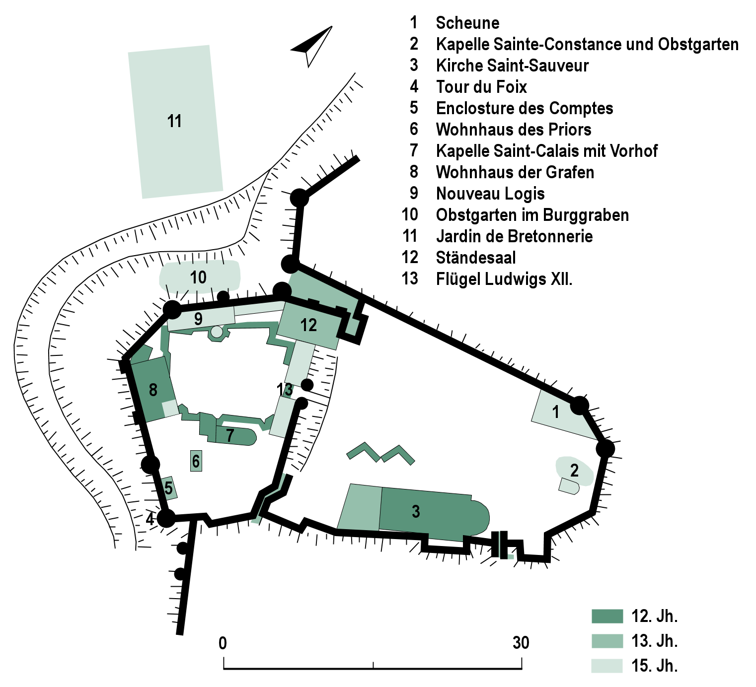 Floor plan of the Château de Blois during the Middle Ages